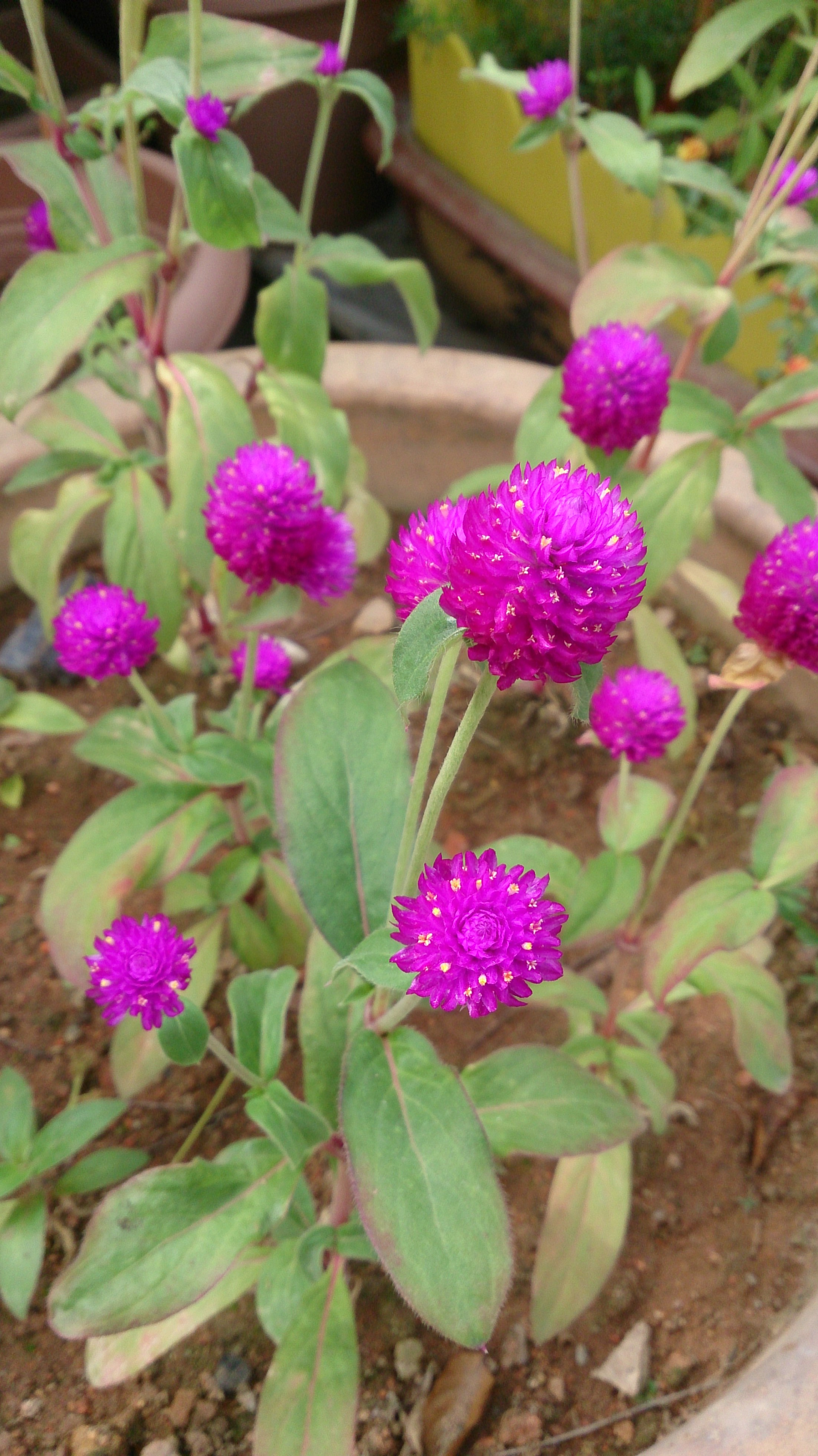 Gomphrena globosa. Common names: globe amaranth, gomphrena, bachelor's buttons. 千日红 (Chinese)